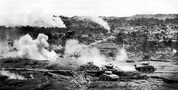 At numerous points, however, severe fighting continued. Tanks are shown reducing an enemy position. Center tank was knocked out but was protected from capture by others. Shell burst mark location of Japanese.